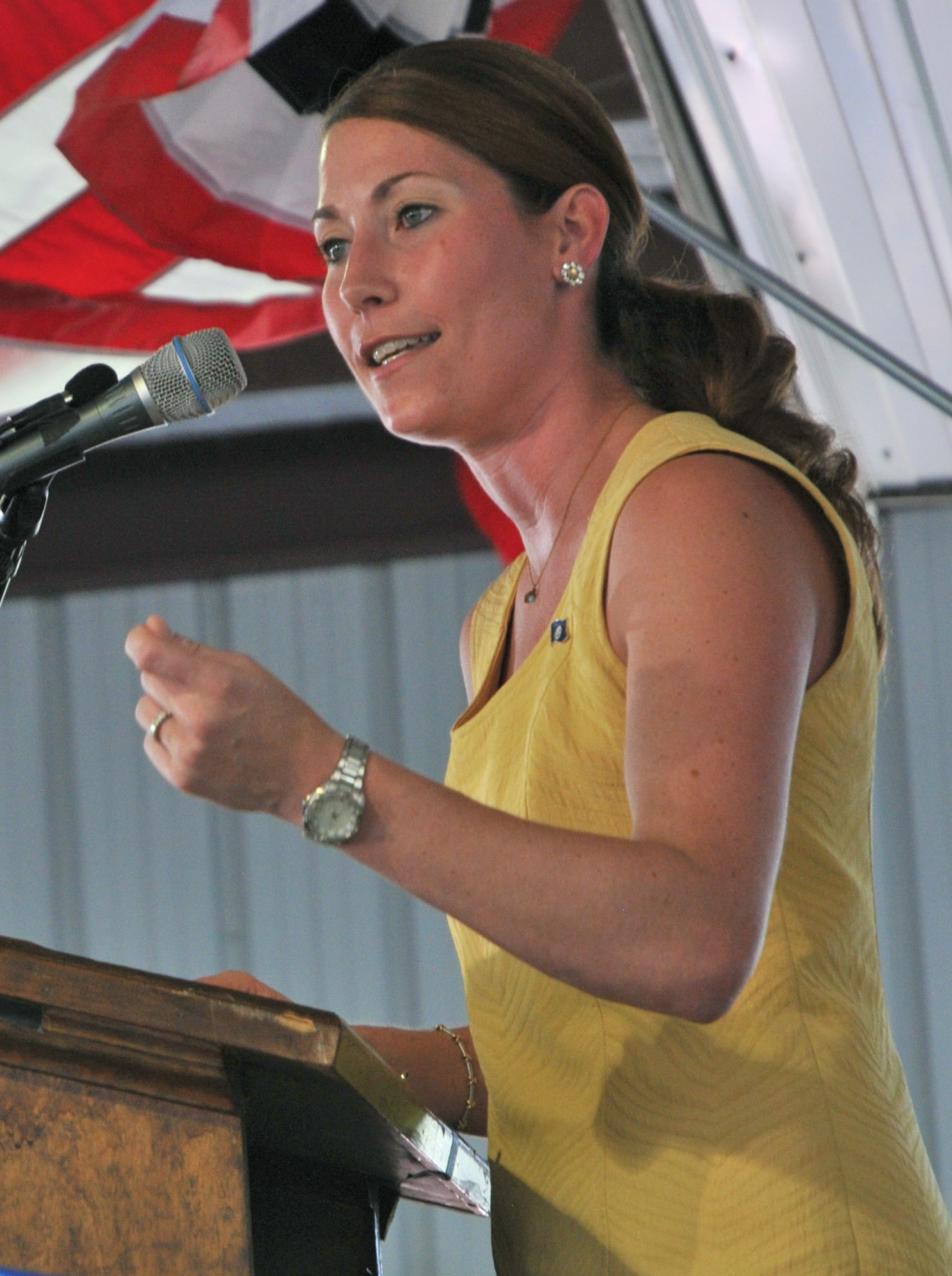 Alison Lundergan Grimes speaking in Fancy Farm, Kentucky during her 2011 campaign for Kentucky Secretary of State